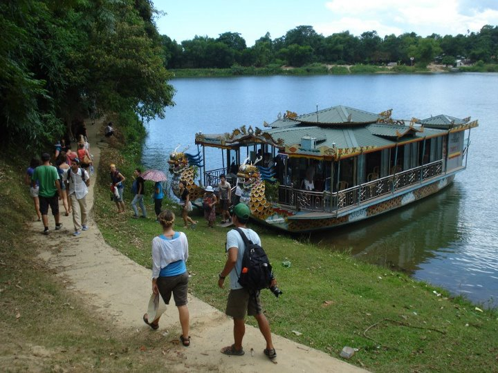 Various Vietnamese ships and boats. Taken during a trip to Vietnam in 2012.